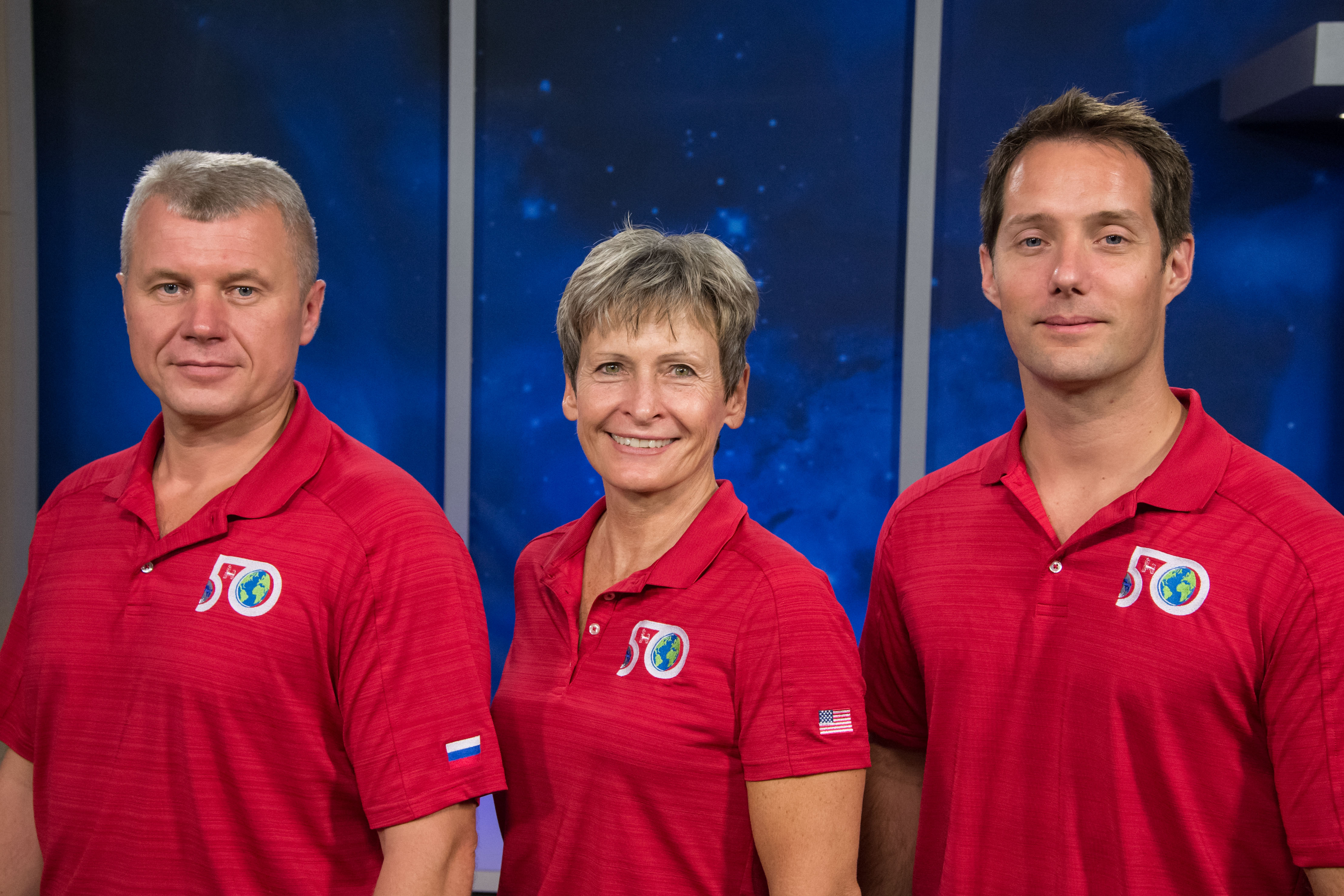 Expedition 50/51 Crew Press Conference with Peggy Whitson, Oleg Novitsky and Thomas Pesquet